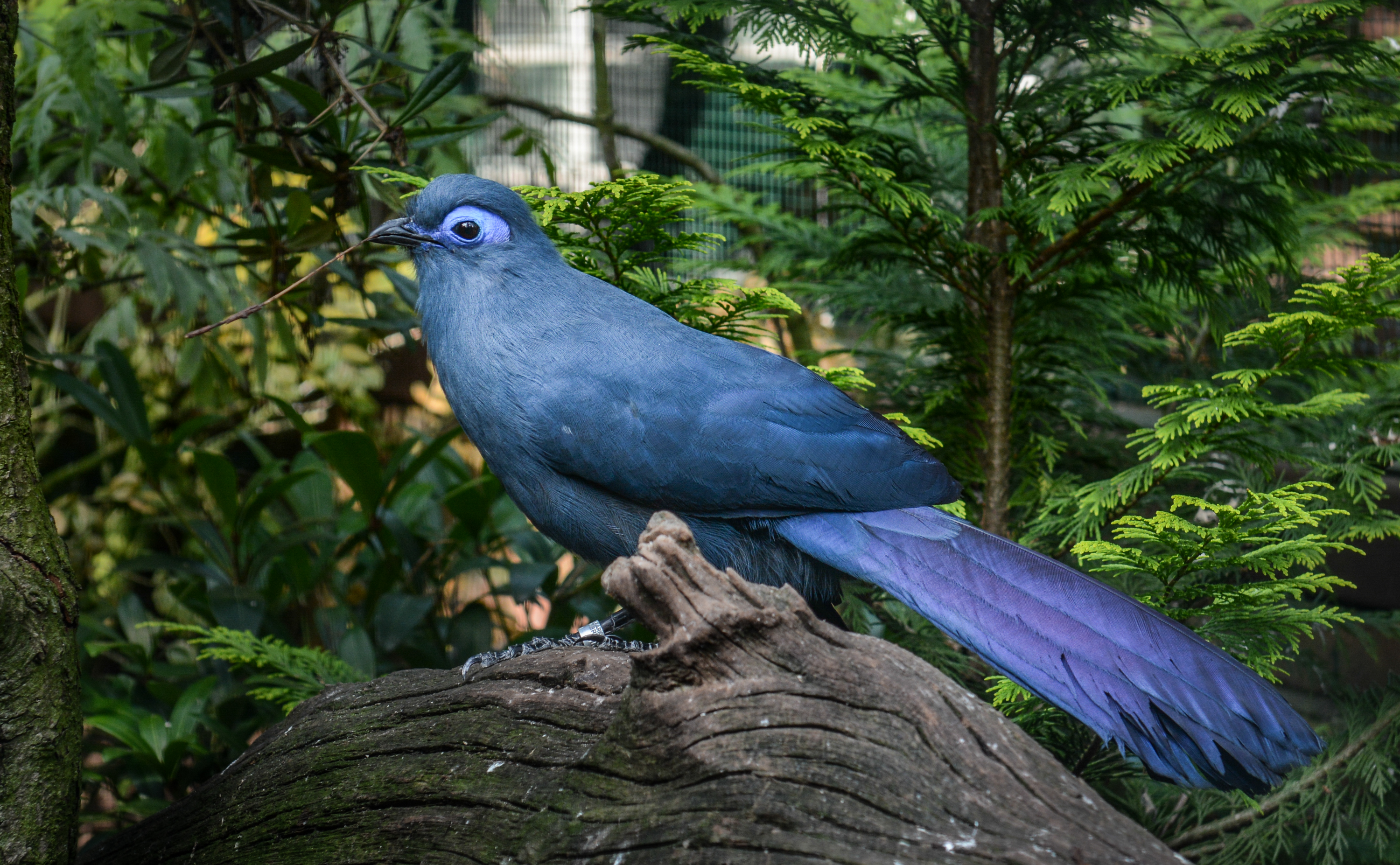 Blue Coua (Coua caerulea) at Weltvogelpark Walsrode (Walsrode Bird Park, Germany)